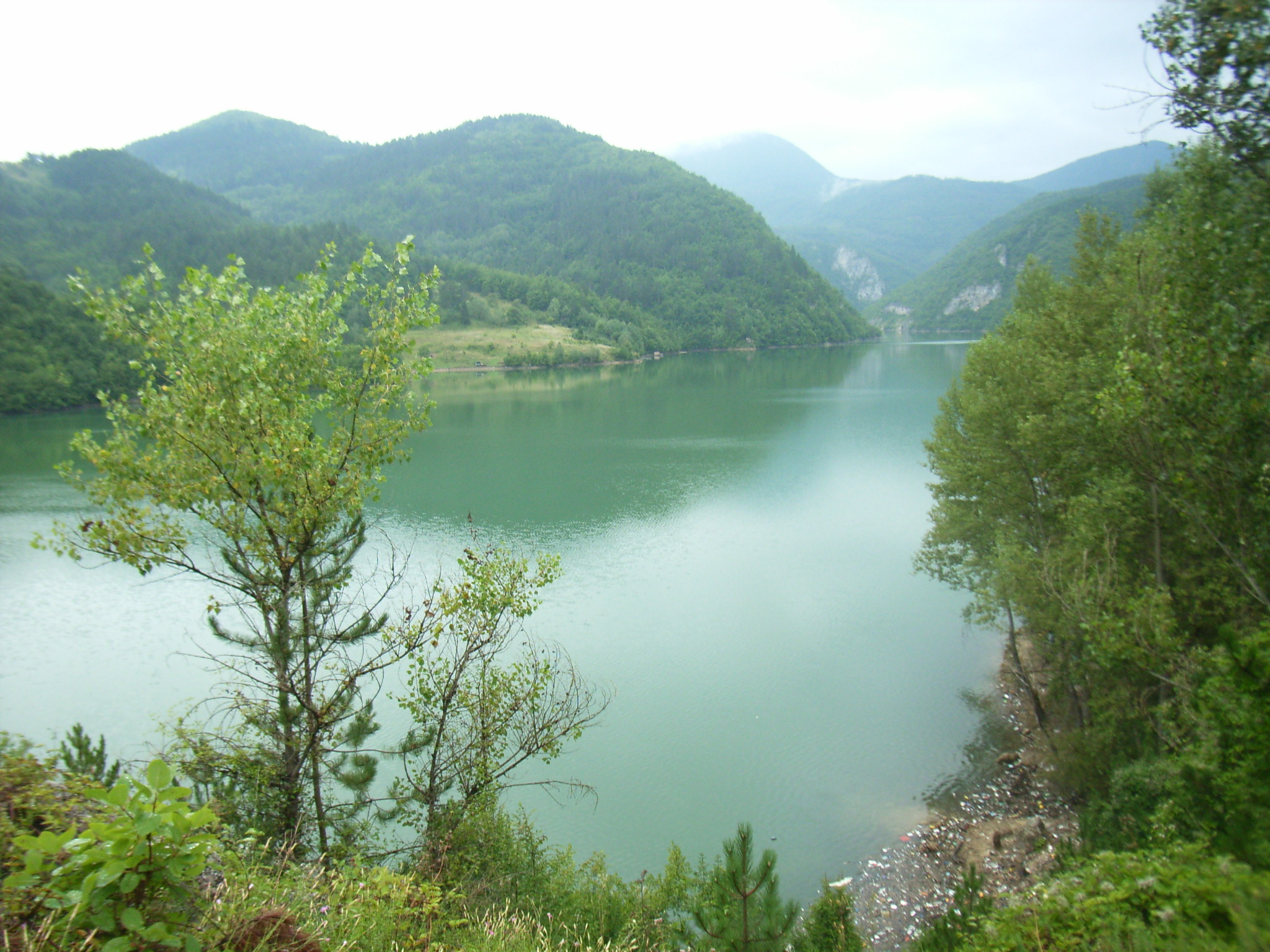 Višegrad in Bosnia and Herzegovina, Drina reservoir